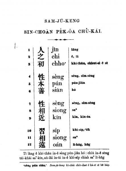 Page 6 of Sam-jū-keng Sin-chōan Pe̍k-oā Chù-kái 中文（台灣）: 《三字經新纂白話註解》之第6頁 Bân-lâm-gú: Sam-jū-keng Sin-chōan Pe̍k-oā Chù-kái ê tē-la̍k ia̍h